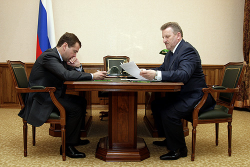 KHABAROVSK. With Governor of Khabarovsk Territory Vyacheslav Shport.